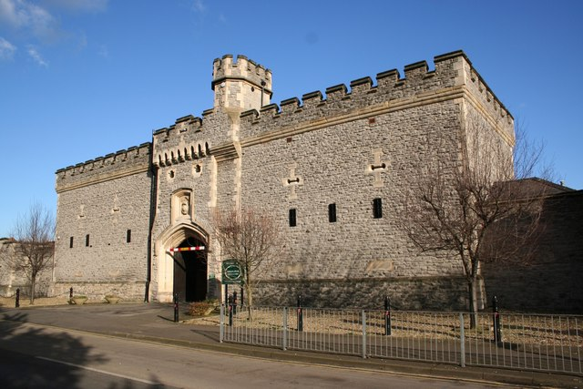 Grantham Barracks Of c1858 and 1872, possibly by F.H.Goddard